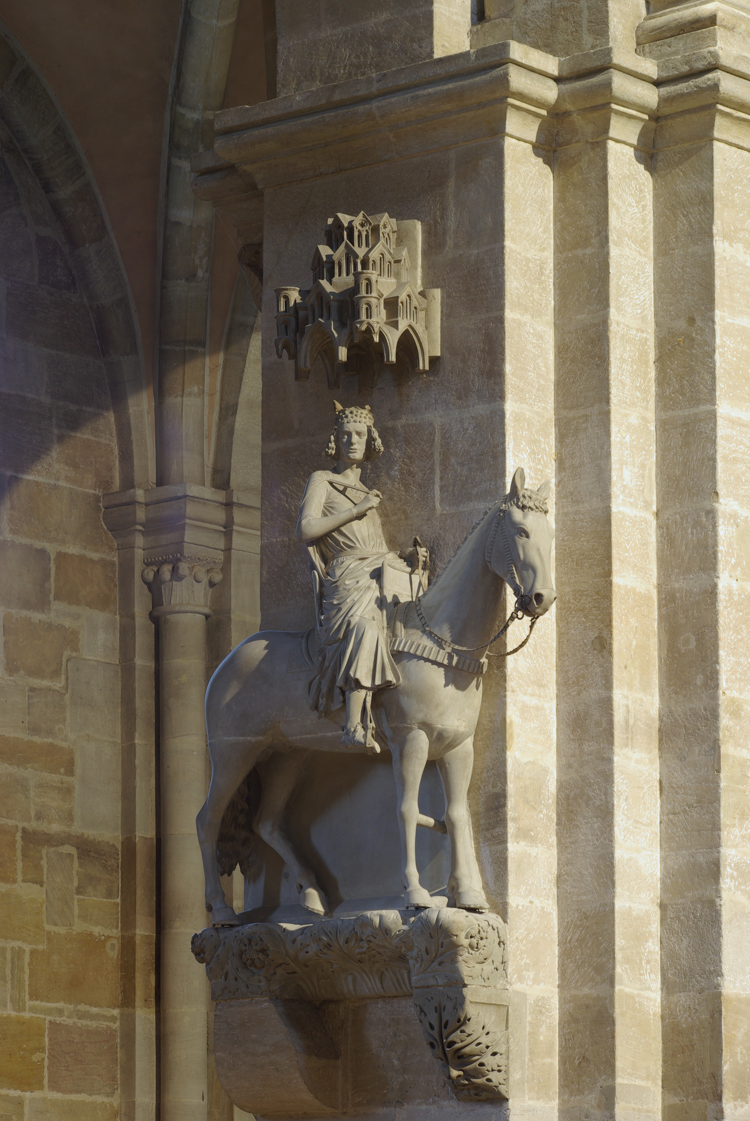 Bamberg Horseman, a life-size stone equestrian statue in the cathedral of Bamberg, in Germany. It is considered the first monumental equestrian statue since classical antiquity.